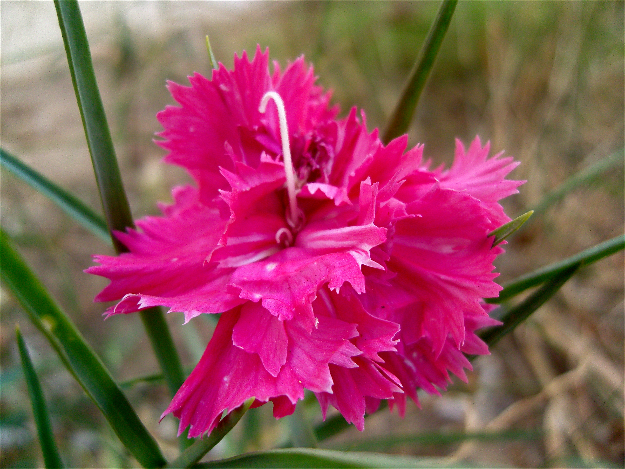 A flower from my personnel garden (location : Sayada - Tunisia)